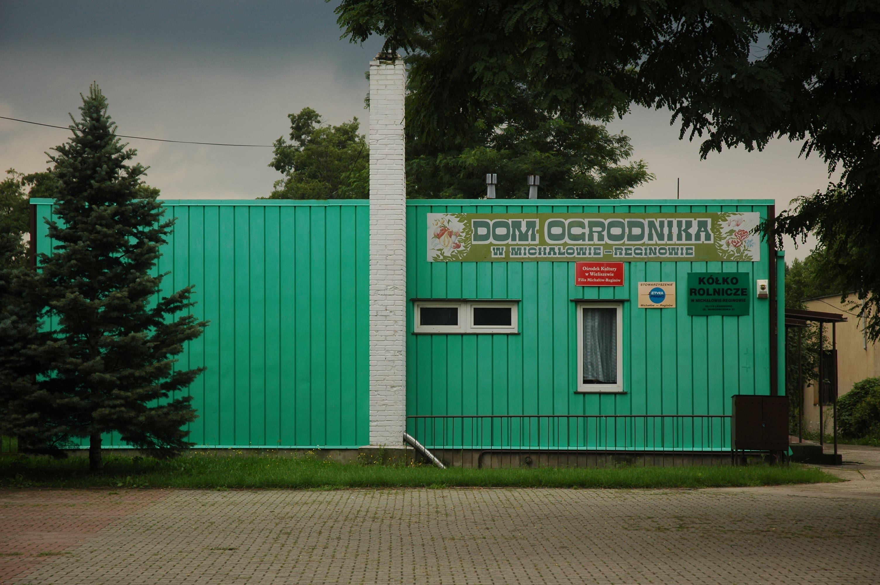 Gardener's House (Michałów-Reginów)